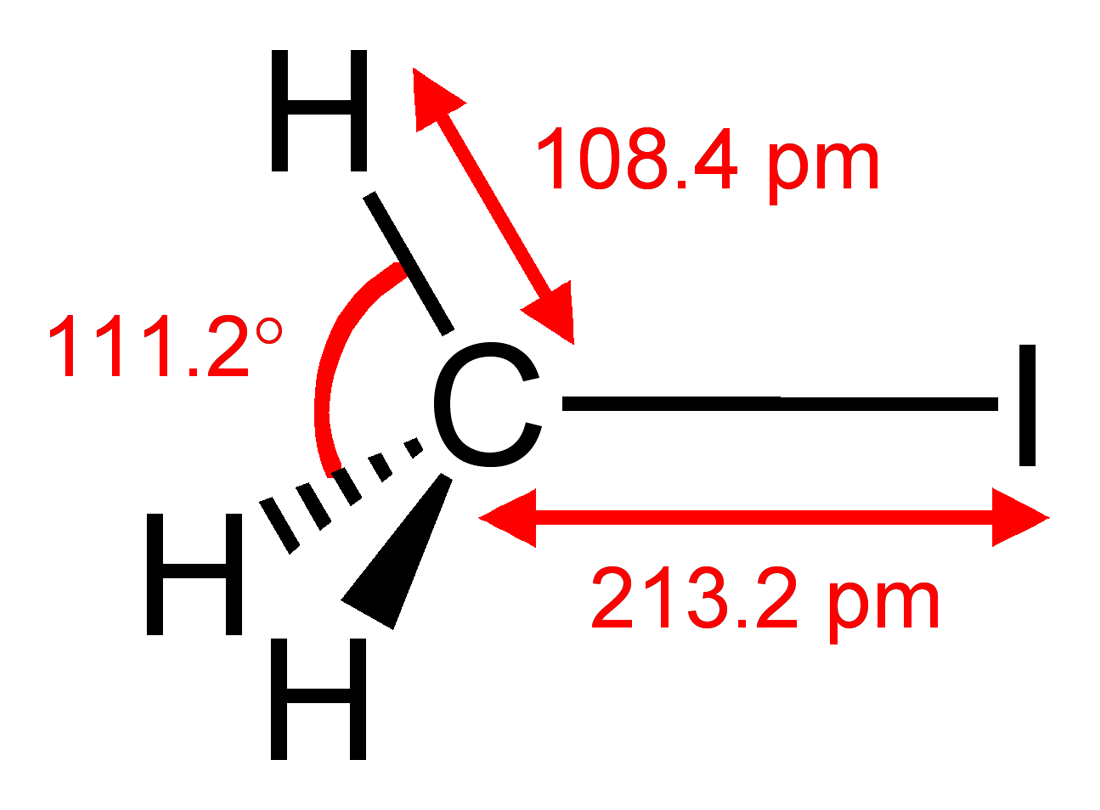 Structural formula of the methyl iodide (iodomethane) molecule, MeI, CH3I. Structural information (determined by microwave and infrared spectroscopy) from CRC Handbook, 88th edition.